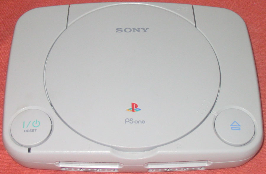 PS one, Good Design Award 2001.